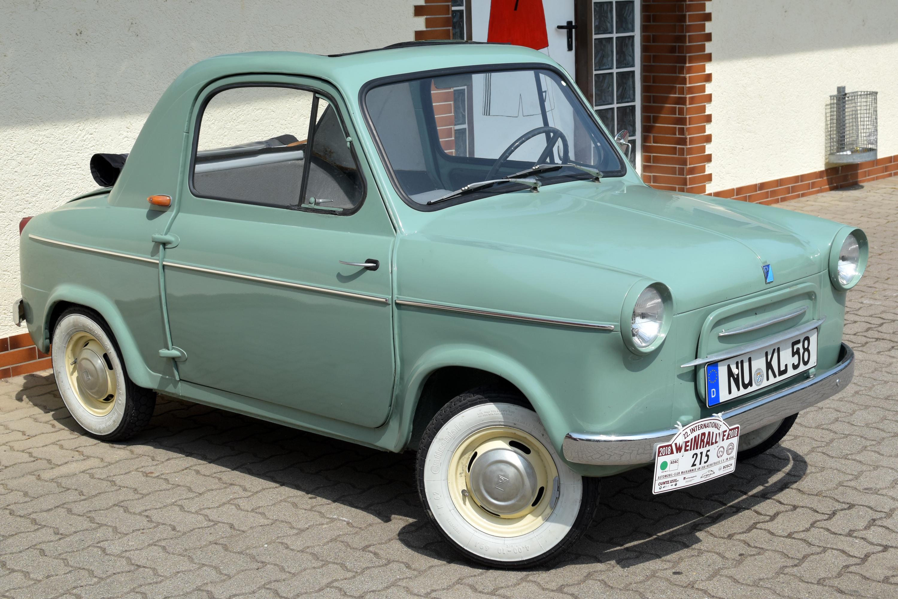 Vespa 400, 1958